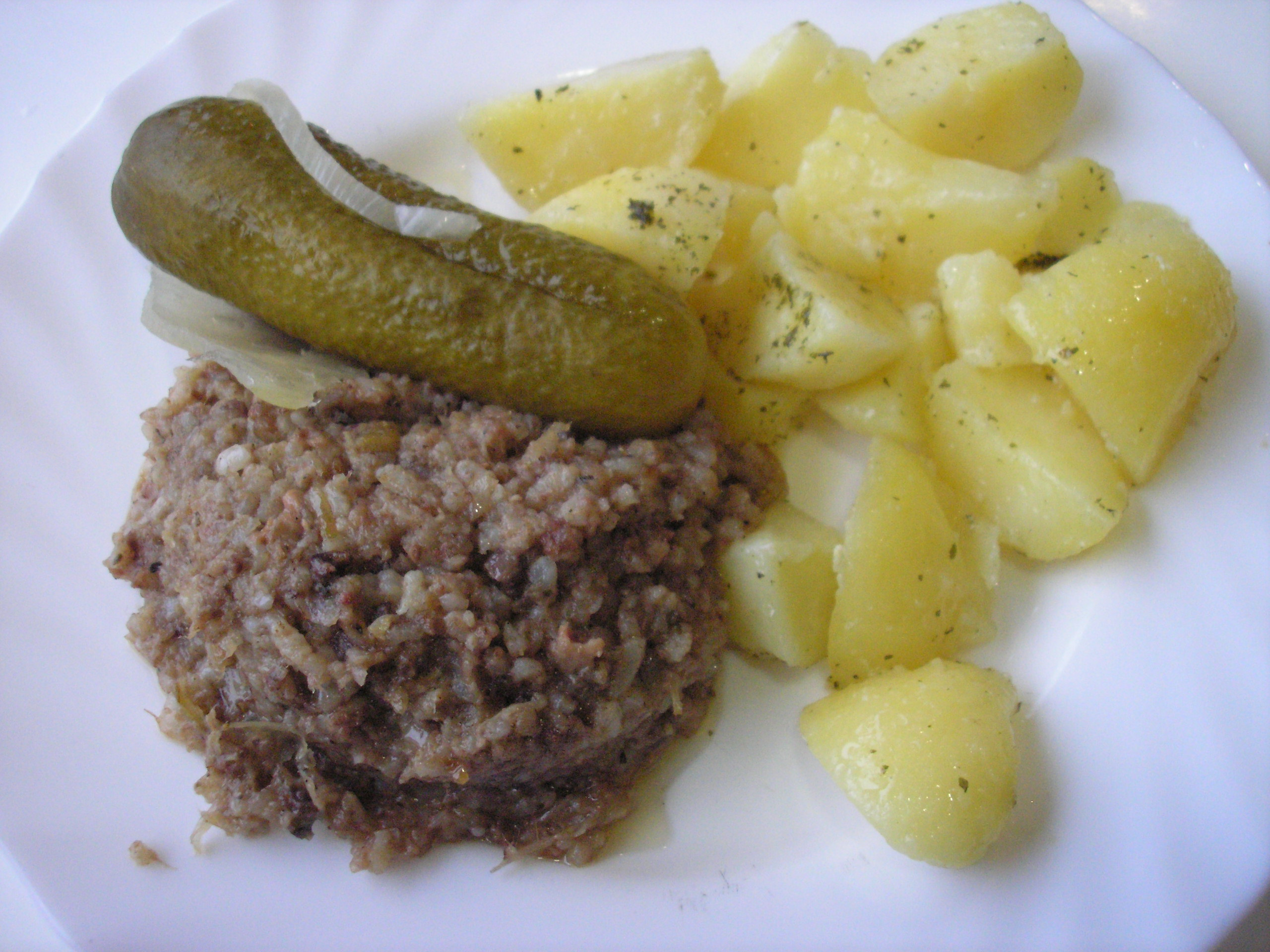 Jaternice